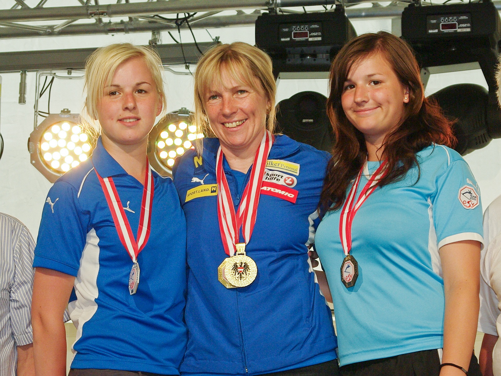 Austrian Grasski Championships 2010 in Rettenbach: Medal ceremony Ladies Combined: 1st place and Austrian Champion: Ingrid Hirschhofer (middle), 2nd place: Jacqueline Gerlach (left), 3rd place: Nicole Gerlach (right)